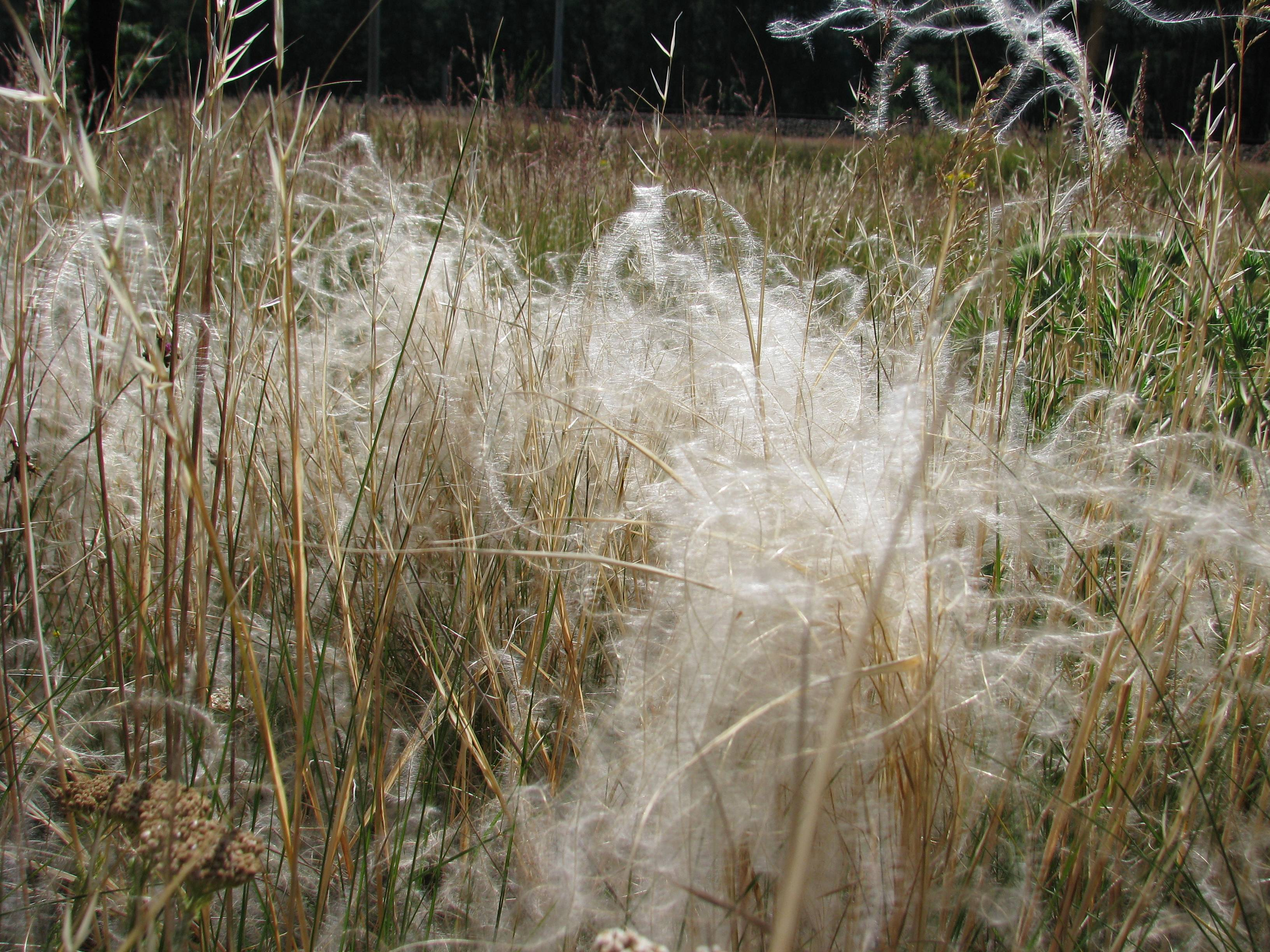 Váté písky in summer — with Stipa borysthenica bunchgrass. The Czech Republic.